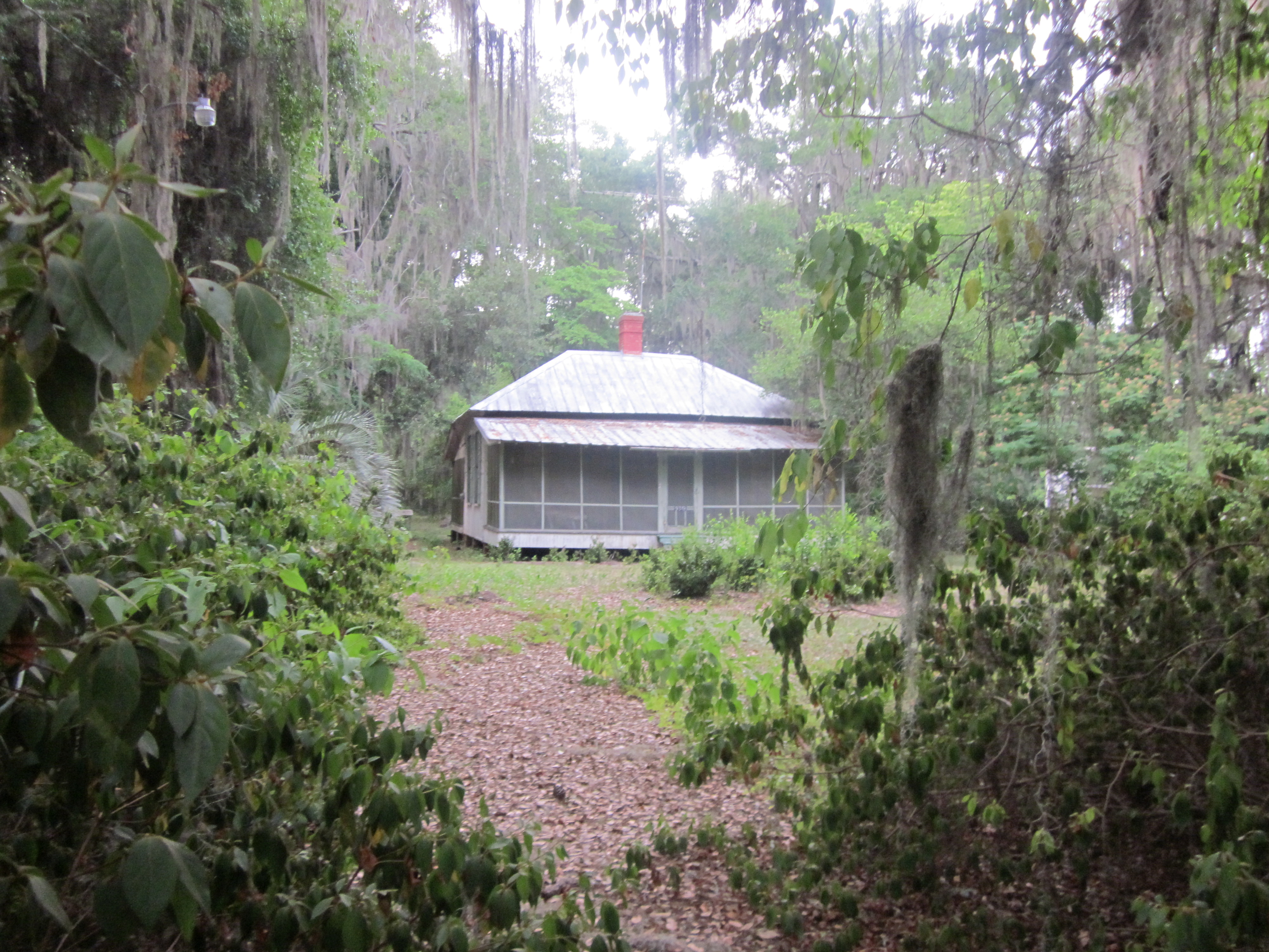 Built in 1885 for the Suwannee Sulphur Springs Resort. Eighteen cottage were built to accommodate the guest of the near-by Suwannee springs. Six of the original cabin remain. Two are owned by Suwannee River Water Management , the remaining four (including the one pictured) are privately owned.